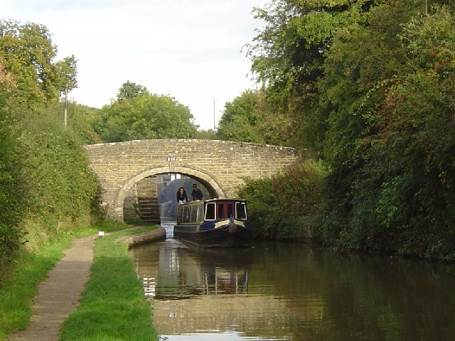 Narrowboat passing under Bridge 213 at Pigeon Lock on the Oxford Canal at Kirtlington, Oxfordshire: view from the south